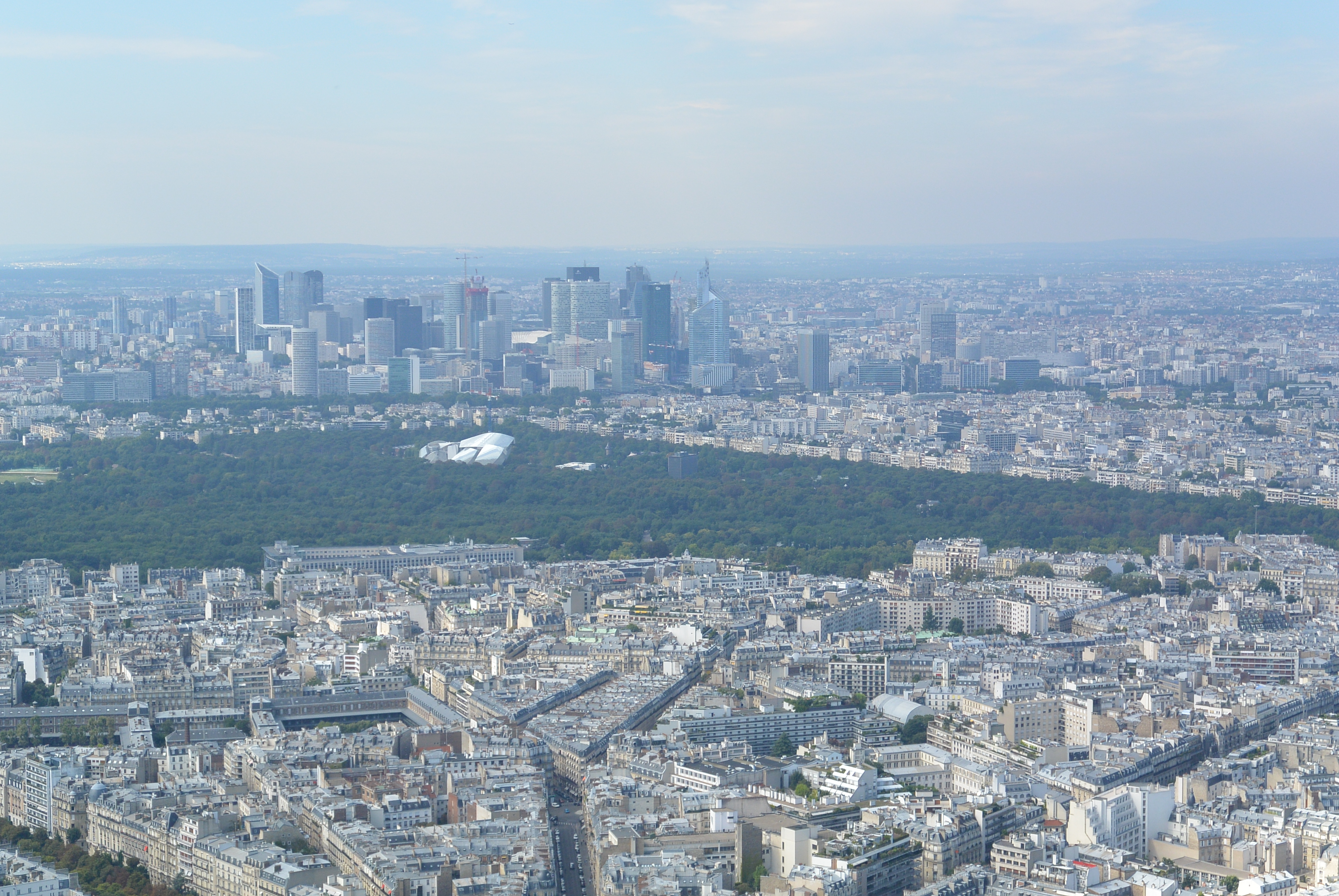 Bois de Boulogne from the Eiffel Tower.